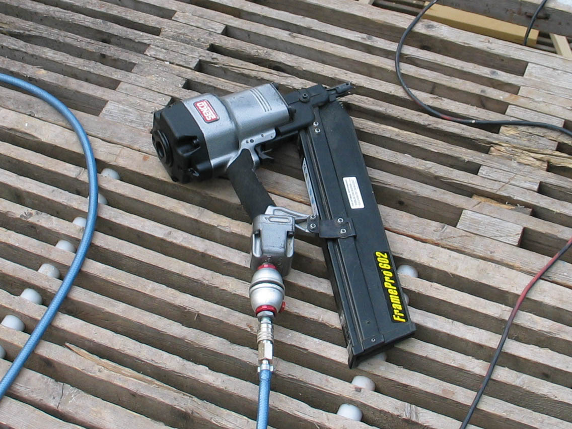 nail gun, photo taken in Sweden